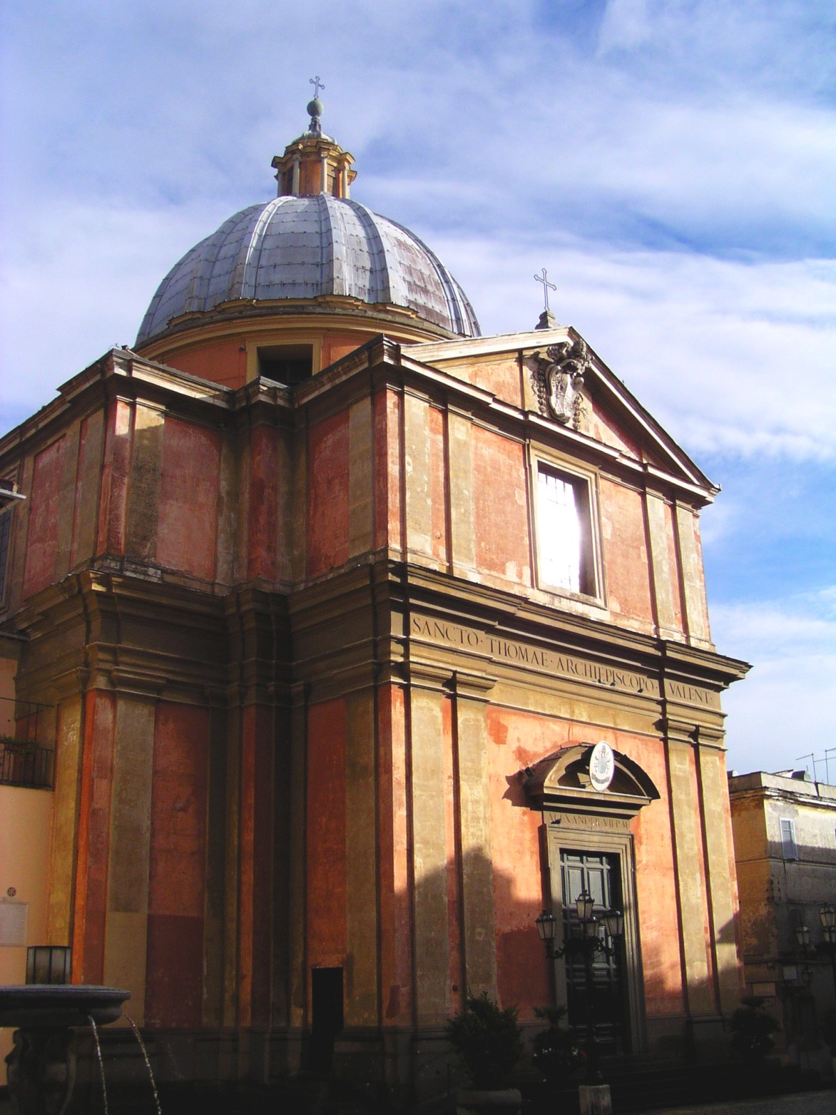 San Tommaso church in Castel Gandolfo, Italy